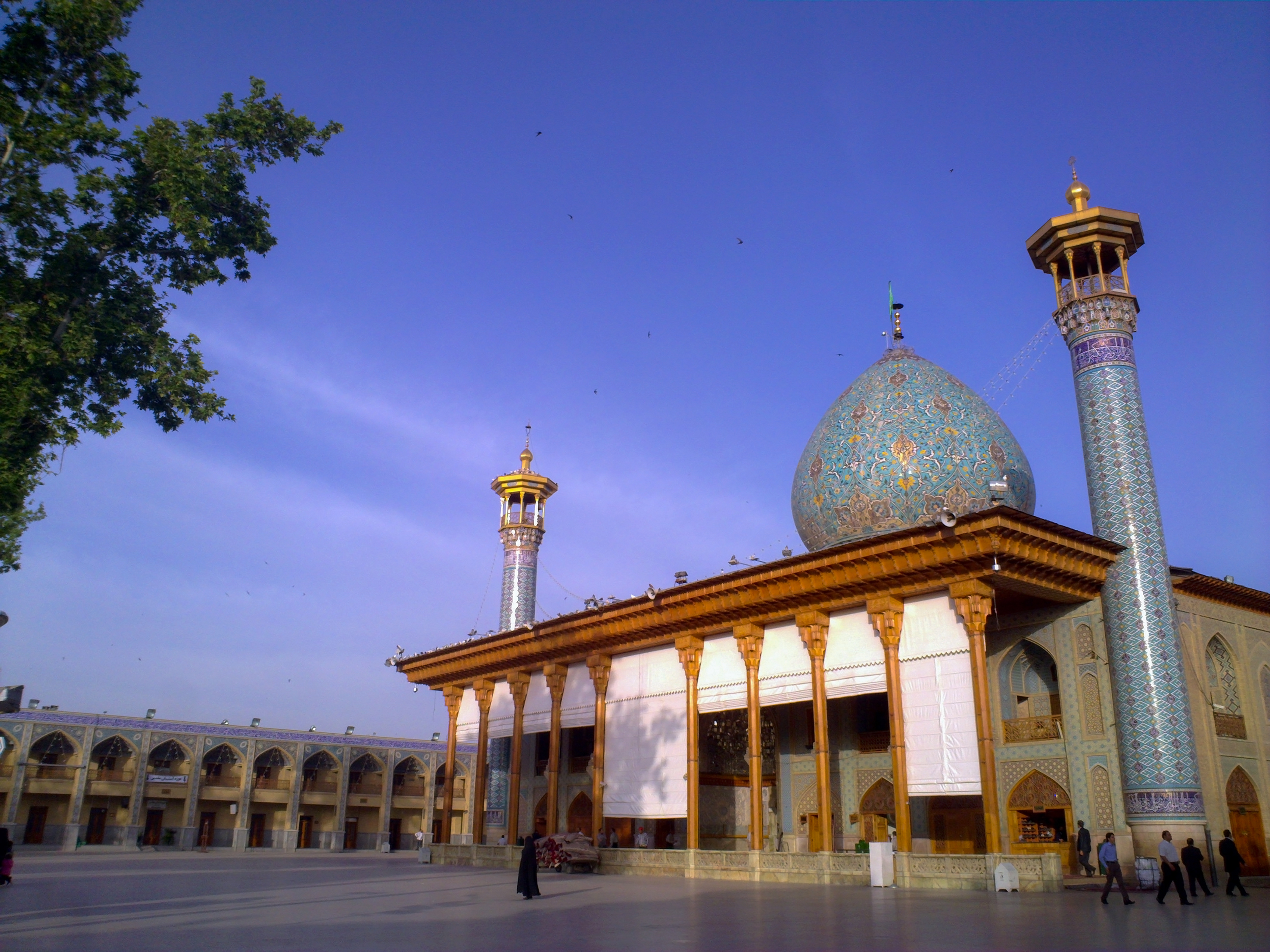 Shāh Chérāgh (Persian: شاه چراغ) is a funerary monument and mosque in Shiraz, Iran, housing the tomb of the brothers Ahmad and Muhammad, sons of Mūsā al-Kādhim and brothers of ‘Alī ar-Ridhā. The two took refuge in the city during the Abbasid persecution of Shia Muslims.